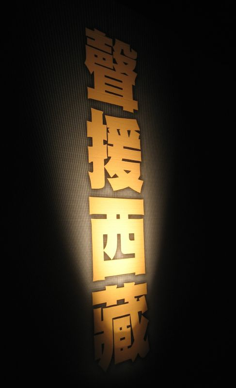 Fire of Human Rights.